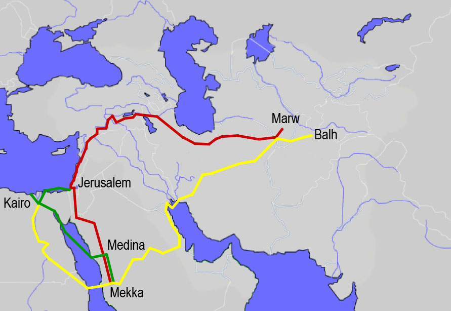 Map of Nasir-i Husrau's travels as described in his "Safarname"